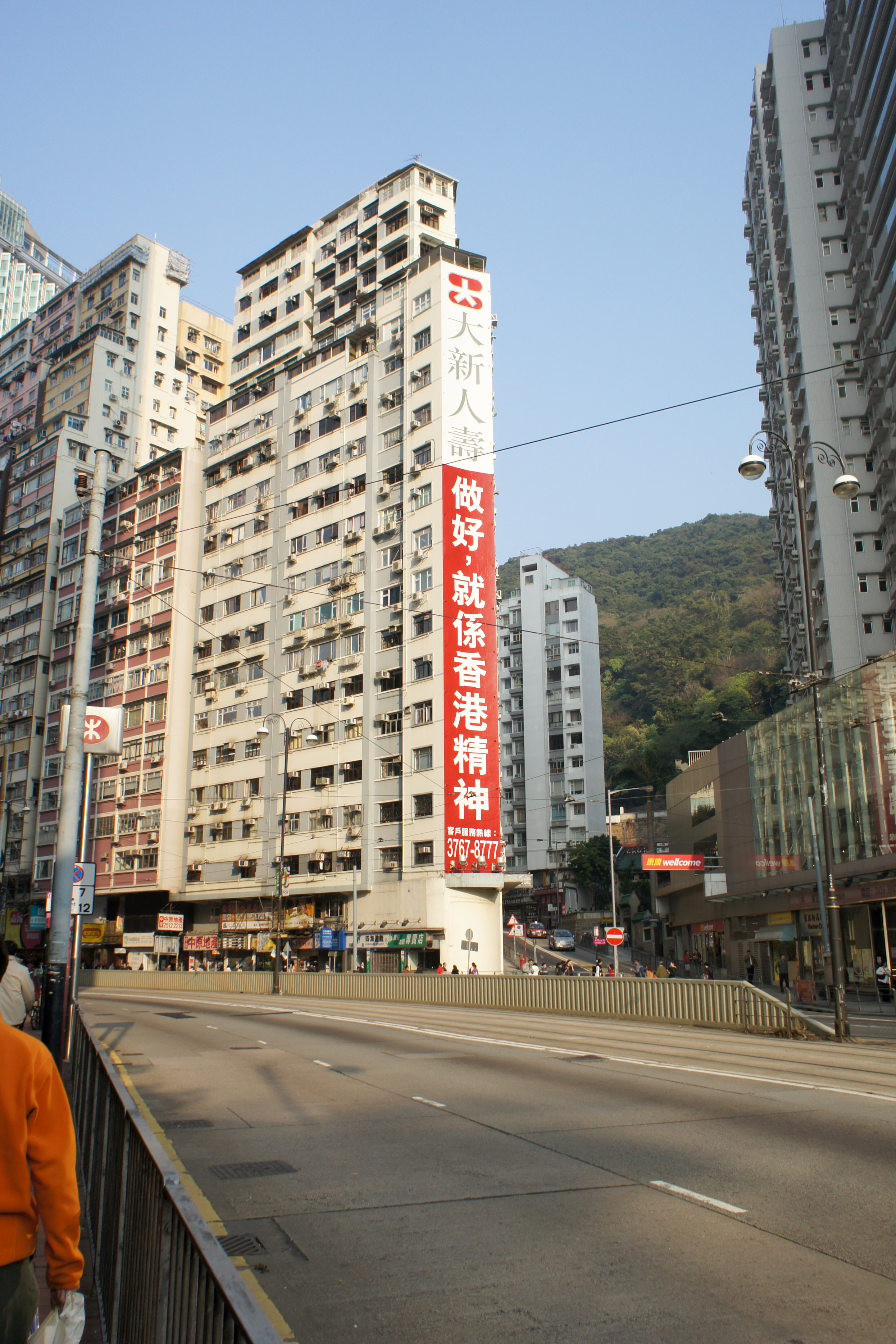 King's Road, Causeway Bay, Hong Kong.